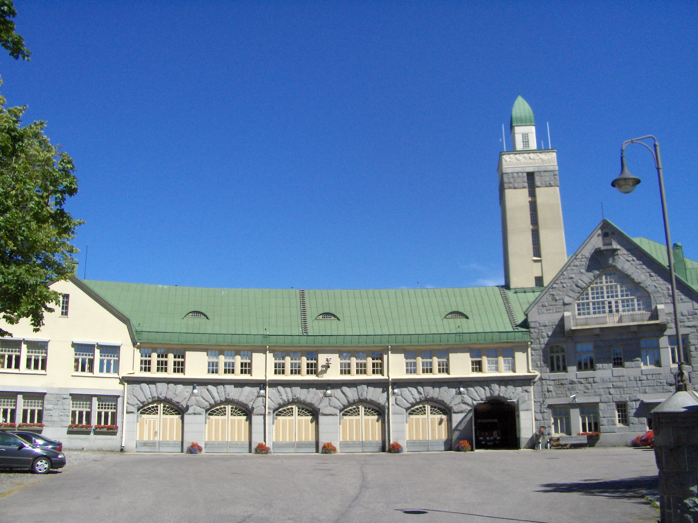 Central fire station in Tampere